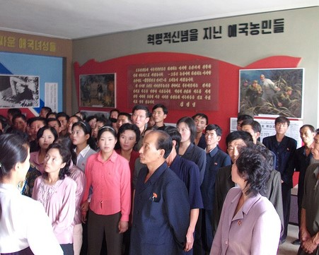 North Koreans tour the Sinchon Massacre Museum.